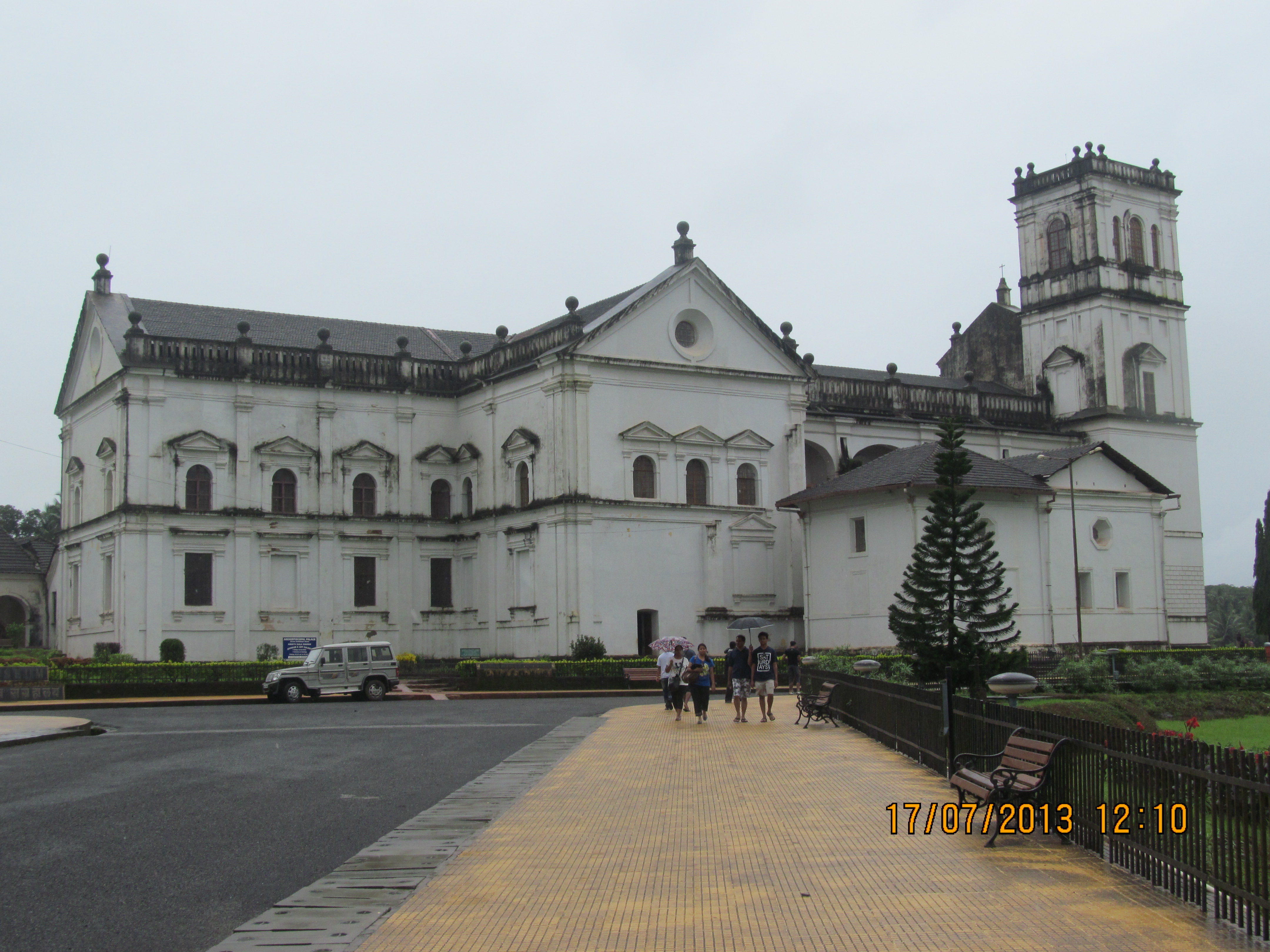 Se’ Cathedral